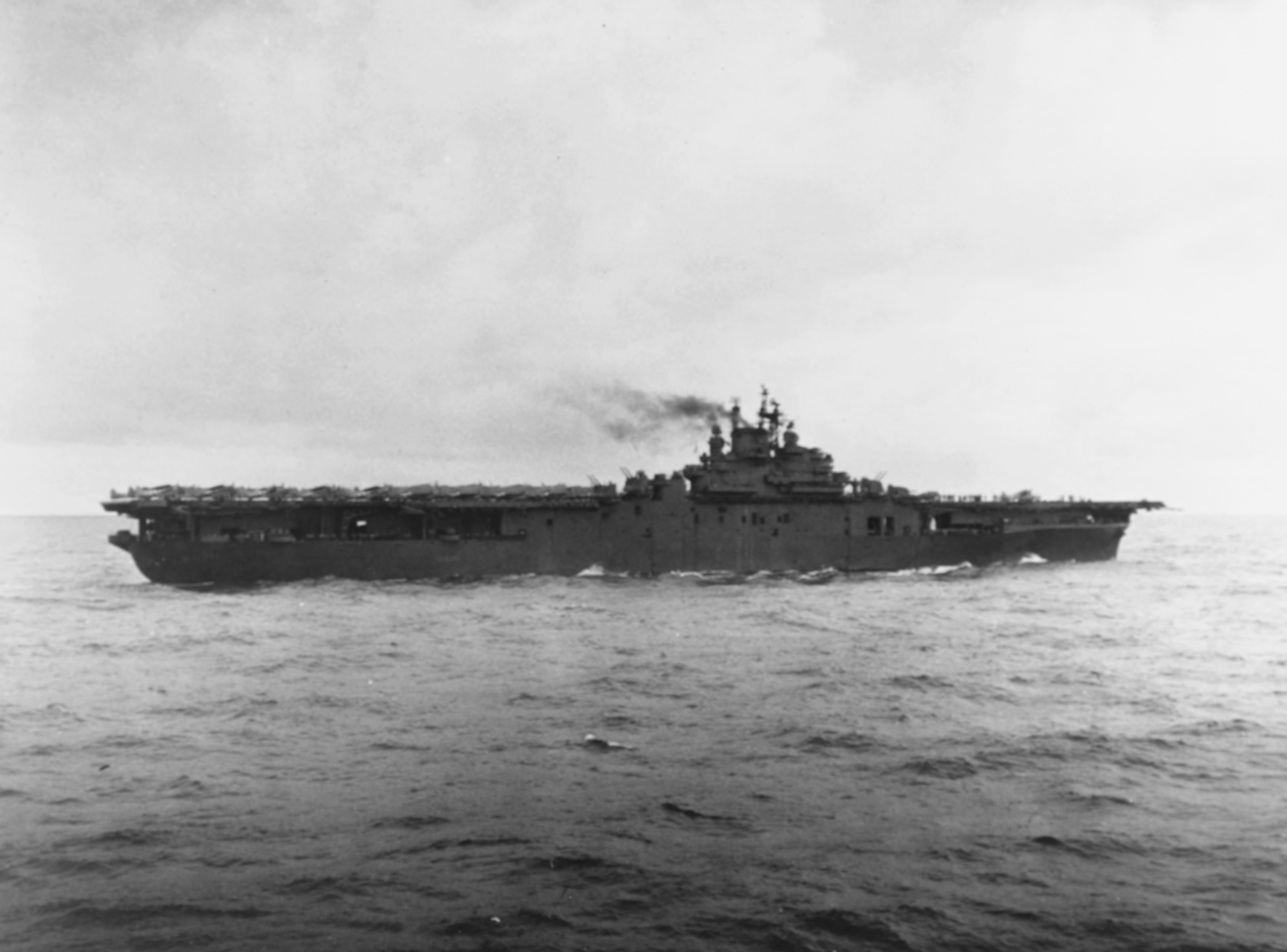 The U.S. Navy aircraft carrier USS Lexington (CV-16) underway during the Gilberts operation, as seen from USS Monterey (CVL-26), November-December 1943. The original photograph is dated 5 December 1943, but must have been taken earlier than that.